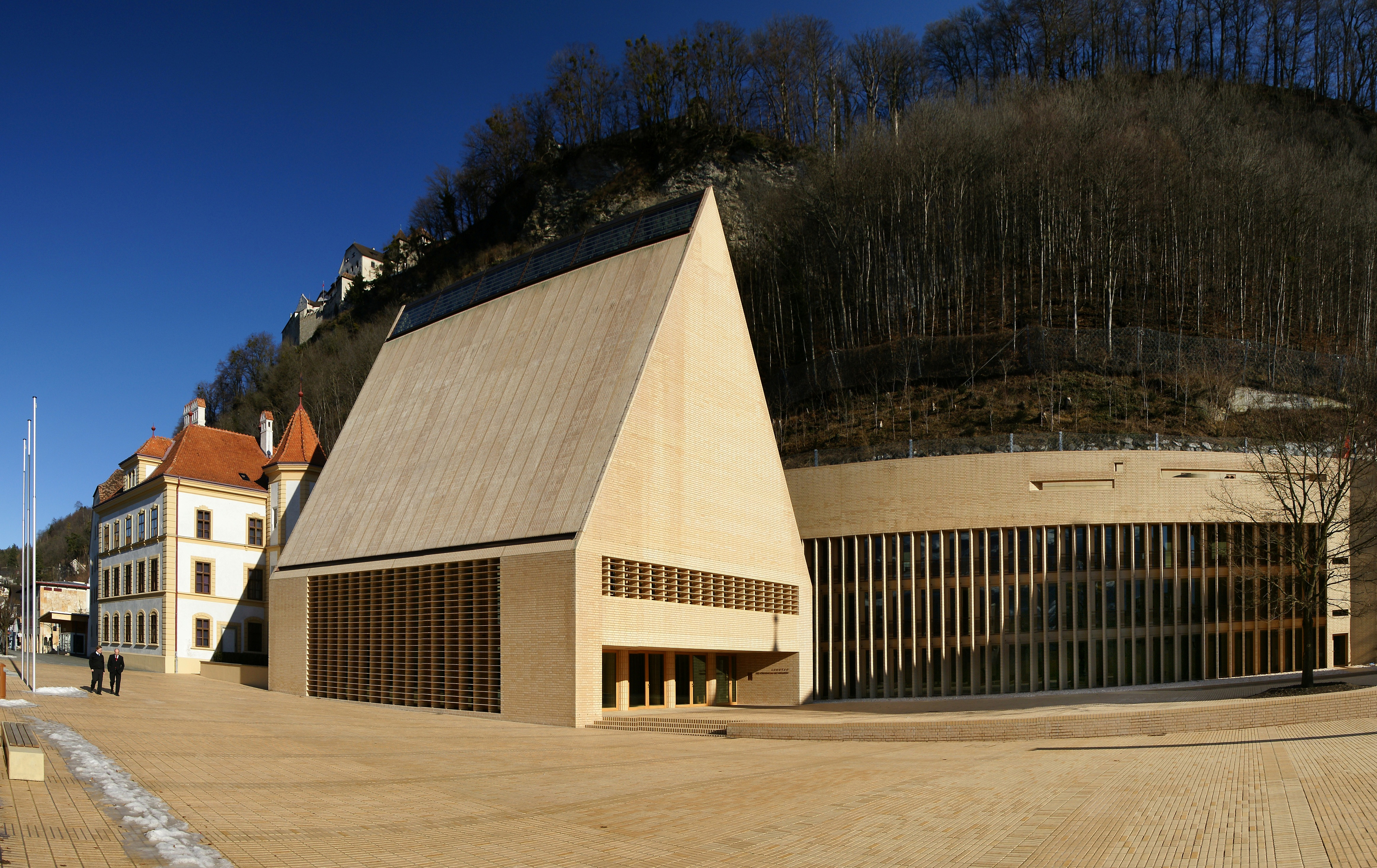 Regierungsgebäude (Government Building), Vaduz, Liechtenstein - Seat of Government and Parliament.